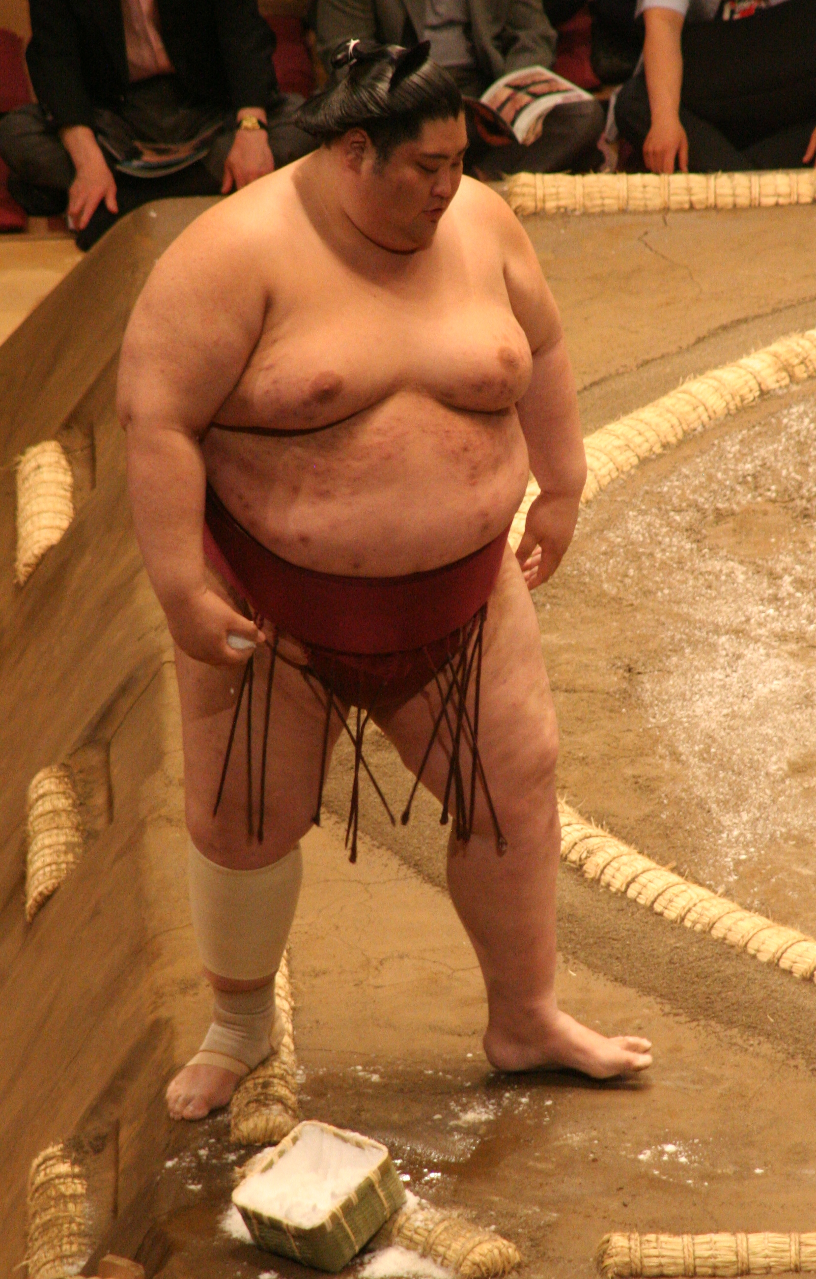 First day of 2009 May Sumo Tournament in Tokyo, Japan - Yamamotoyama